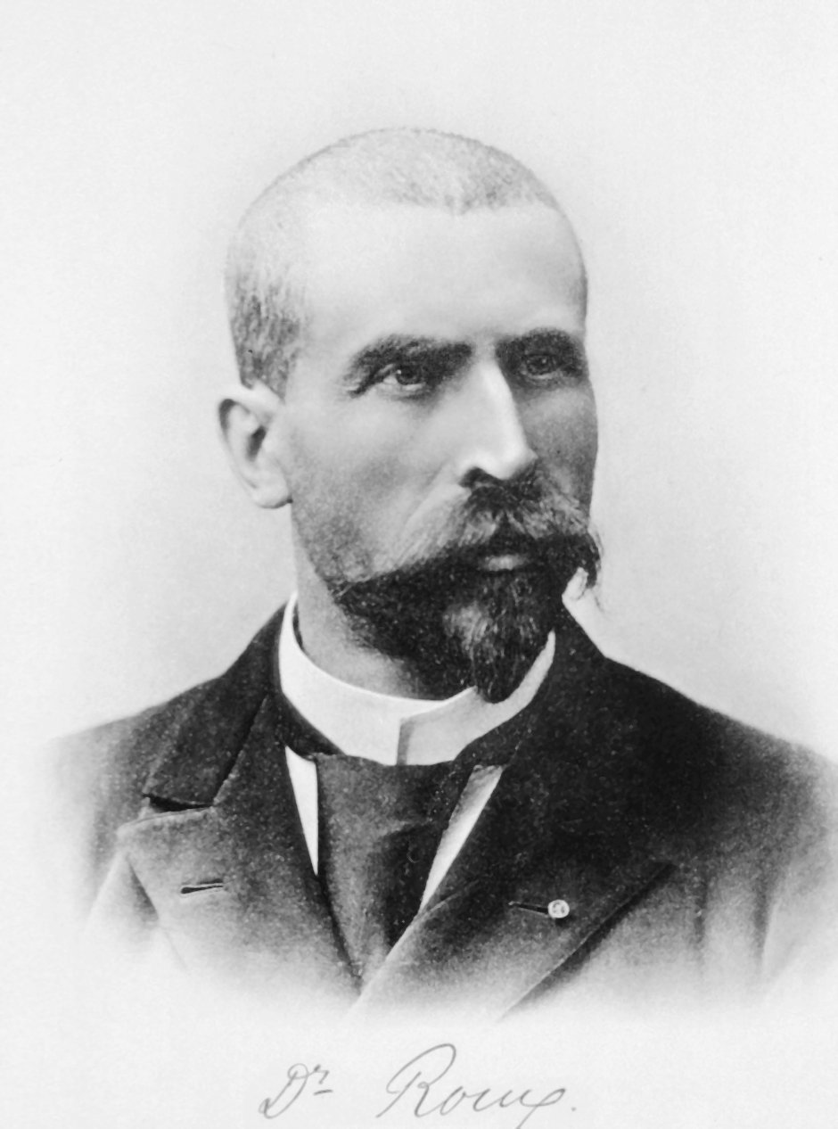 Pierre Paul Émile Roux (December 17, 1853, Confolens, Charente – November 3, 1933, Paris)